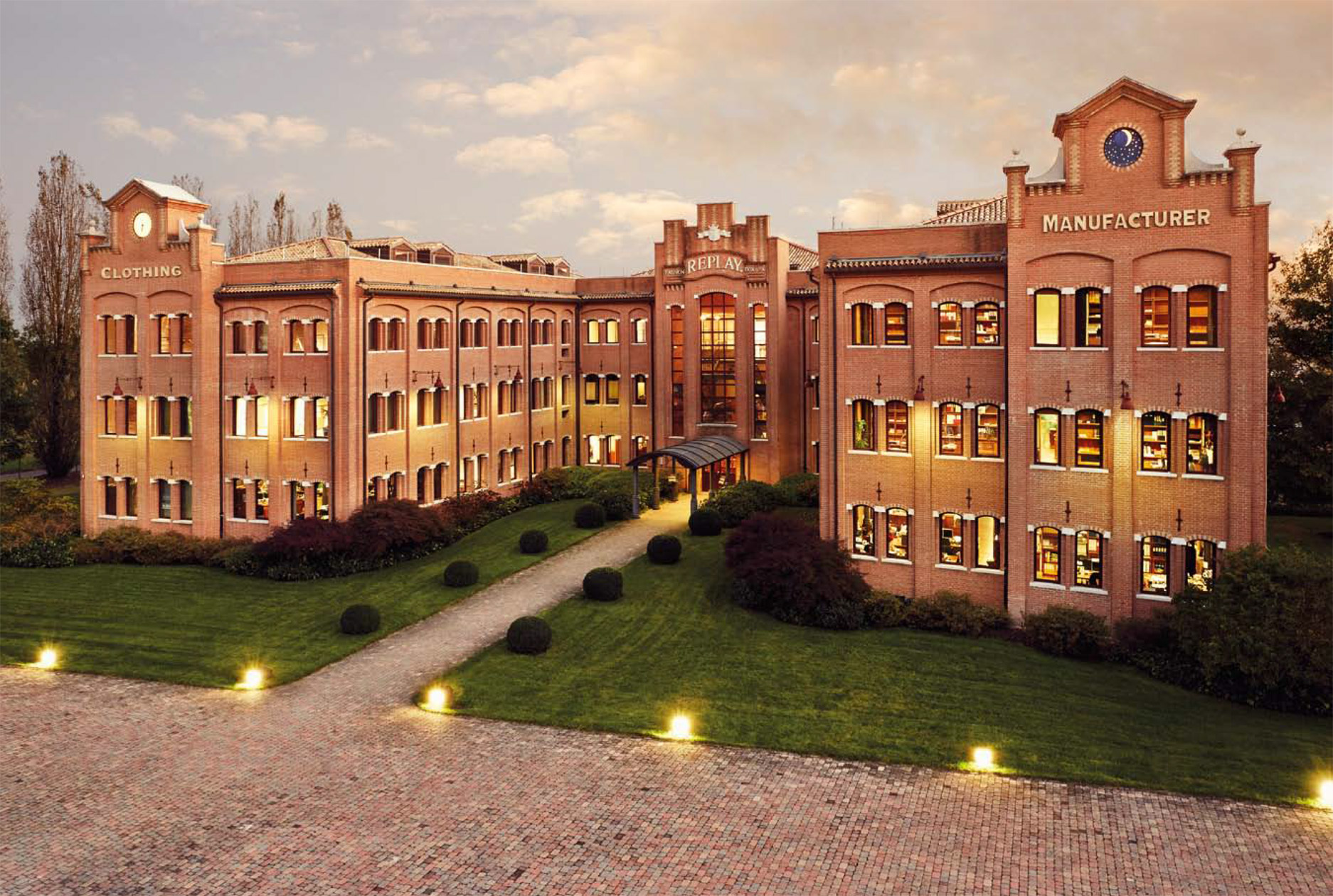 Fashion Box Headquarter in Asolo, Treviso